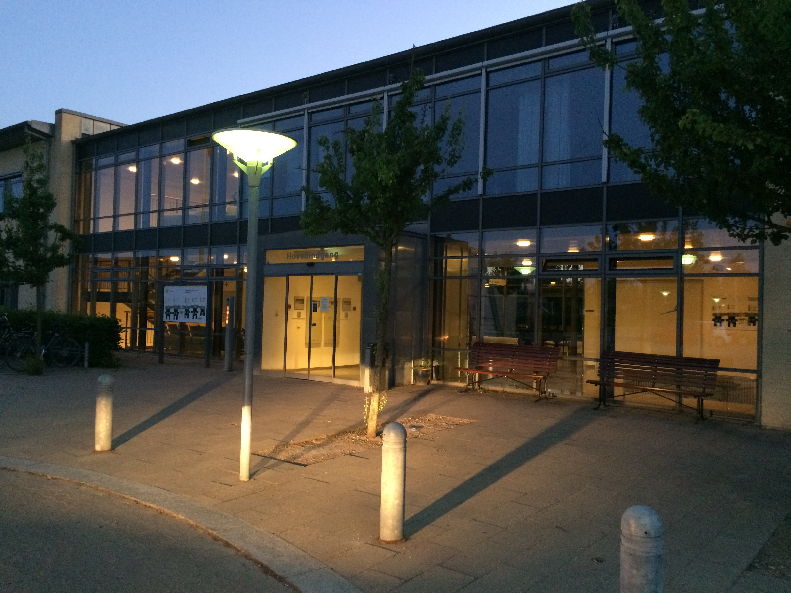 Psykiatrisk Center Amager (Digevej, Copenhagen)